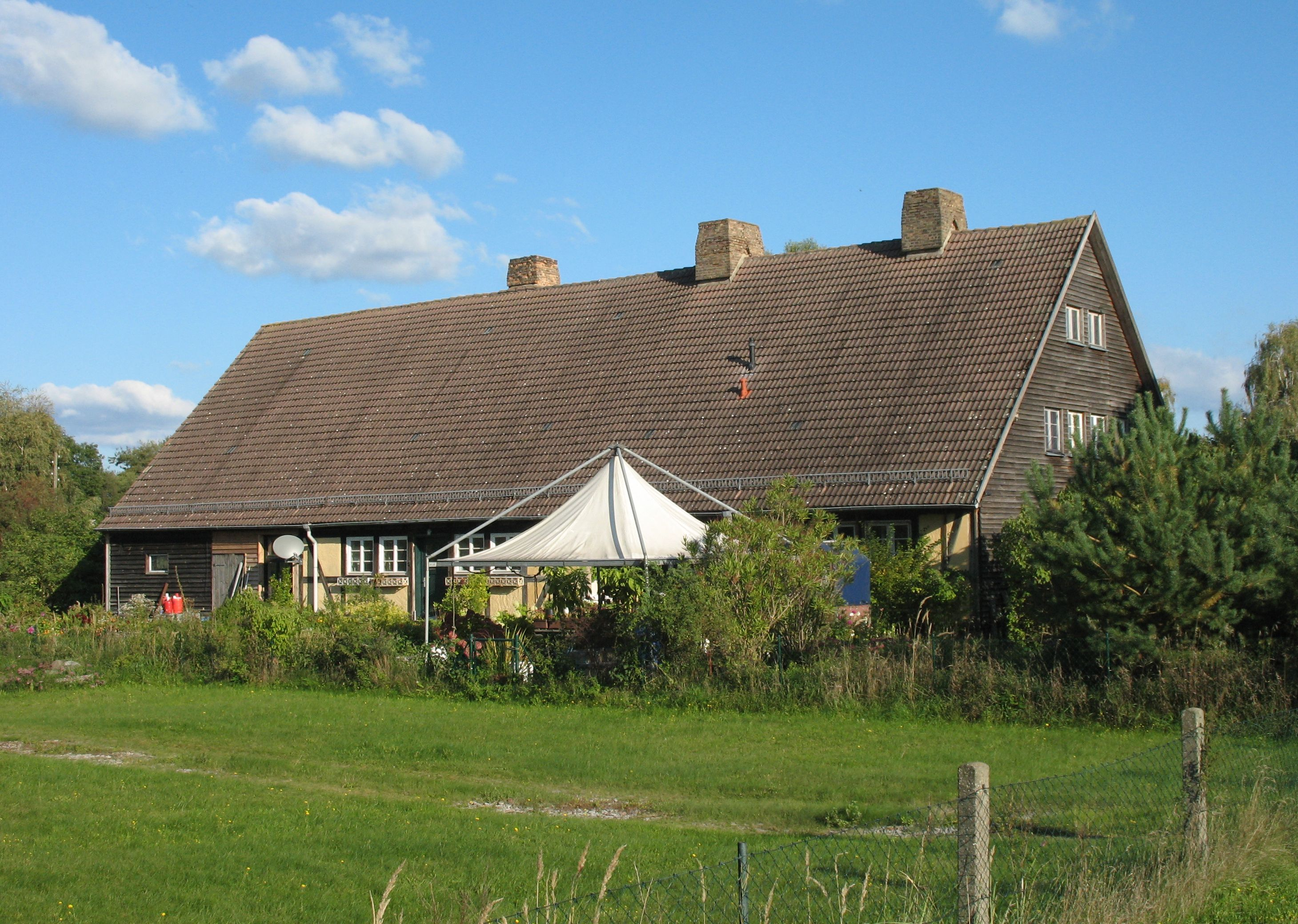 Building in Fehrbellin-Zietenhorst in Brandenburg, Germany